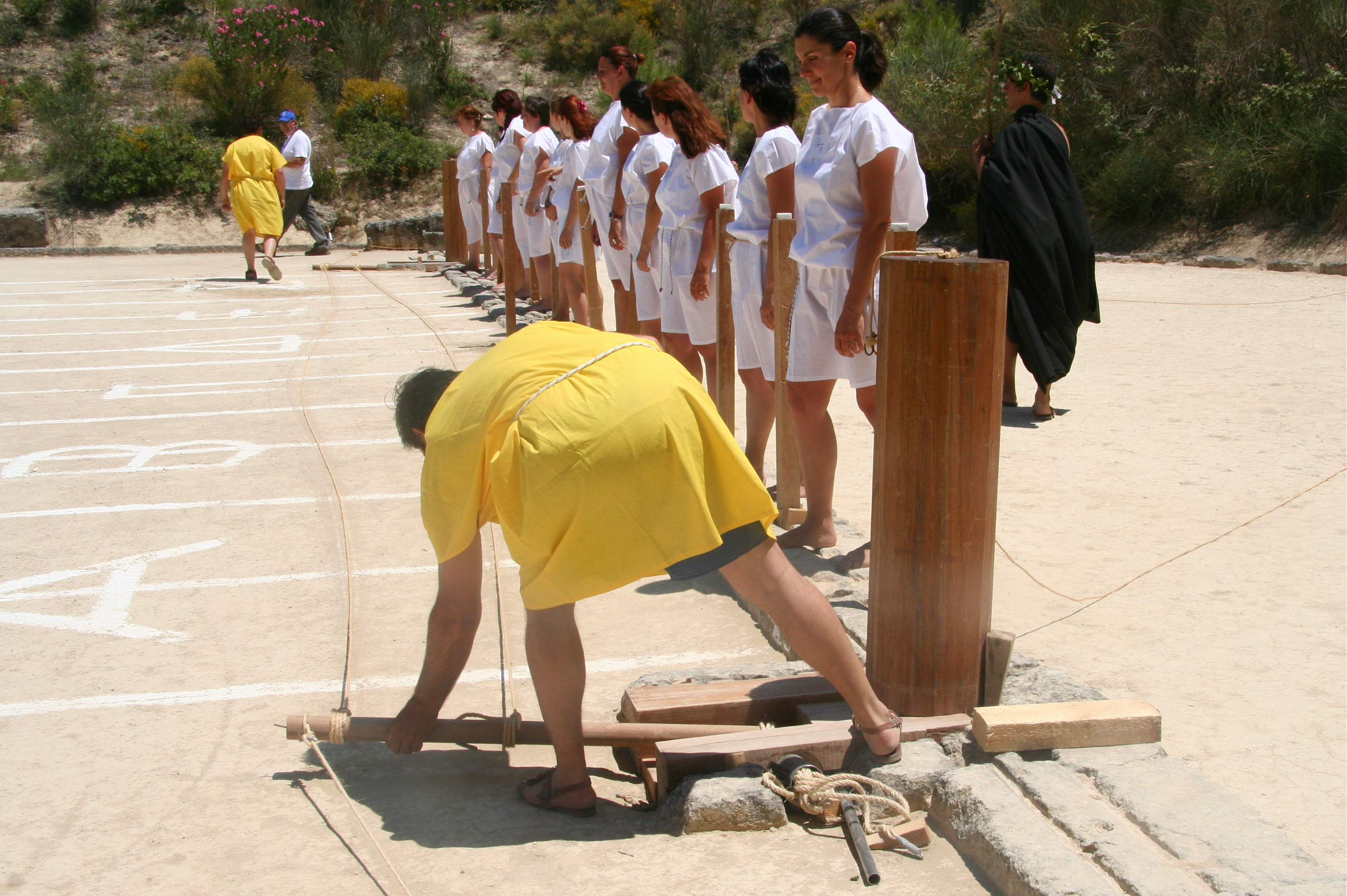 A modern version of the ancient hysplex was reconstructed in the stadium at Nemea, Greece in 1993 and has been used during revivals of the Ancient Nemean Games held every four years. Two ropes are strung across the racing lanes and tied to wooden poles at each end of the starting line stone, called a balbis, which was carved with two thin grooves marking where runners placed their toes. Another set of ropes at the base of the two poles is twisted to create tension when the gate is lifted vertically into the starting position. The gate is then held in place by a ring and cord fastened to larger stationary posts at each end. The race official standing behind the runners would shout, "foot by foot, ready, go!" before pulling a chord attached to the rings that triggered the gate to slam to the ground in front of the runners and start the race. Based on discoveries by University of Athens professor Panos Valavanis, the reconstruction of the fully functioning hysplex at Nemea was directed by Stephen Miller, University of California, Berkeley professor emeritus of Classical Archaeology. Intel Free Press story: Olympic False Start Technology Traced to 5th Century B.C. The quest for fair, objective starts to Olympic footraces stretches back 2,400 years.